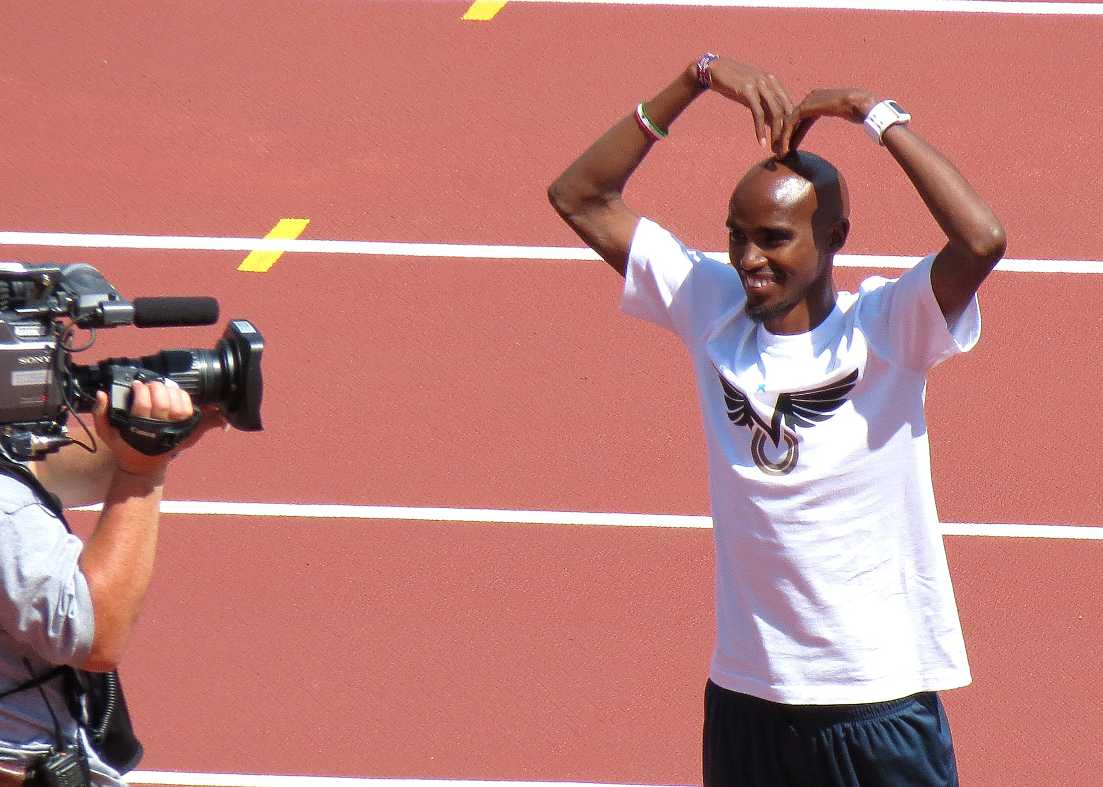 Mo Farah at the London Anniversary Games, July 2013